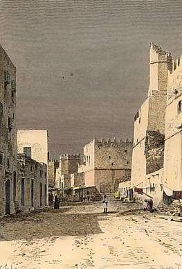 Wood engraving drawn by Taylor, engraved by Kohl. 1886. 18,5x12,5cm.